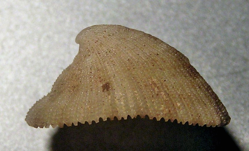 Emarginula maculata (Sowerby, 1866), a keyhole limpet from the family Fissurellidae. Philippines. Bohol. Balicasag Island.